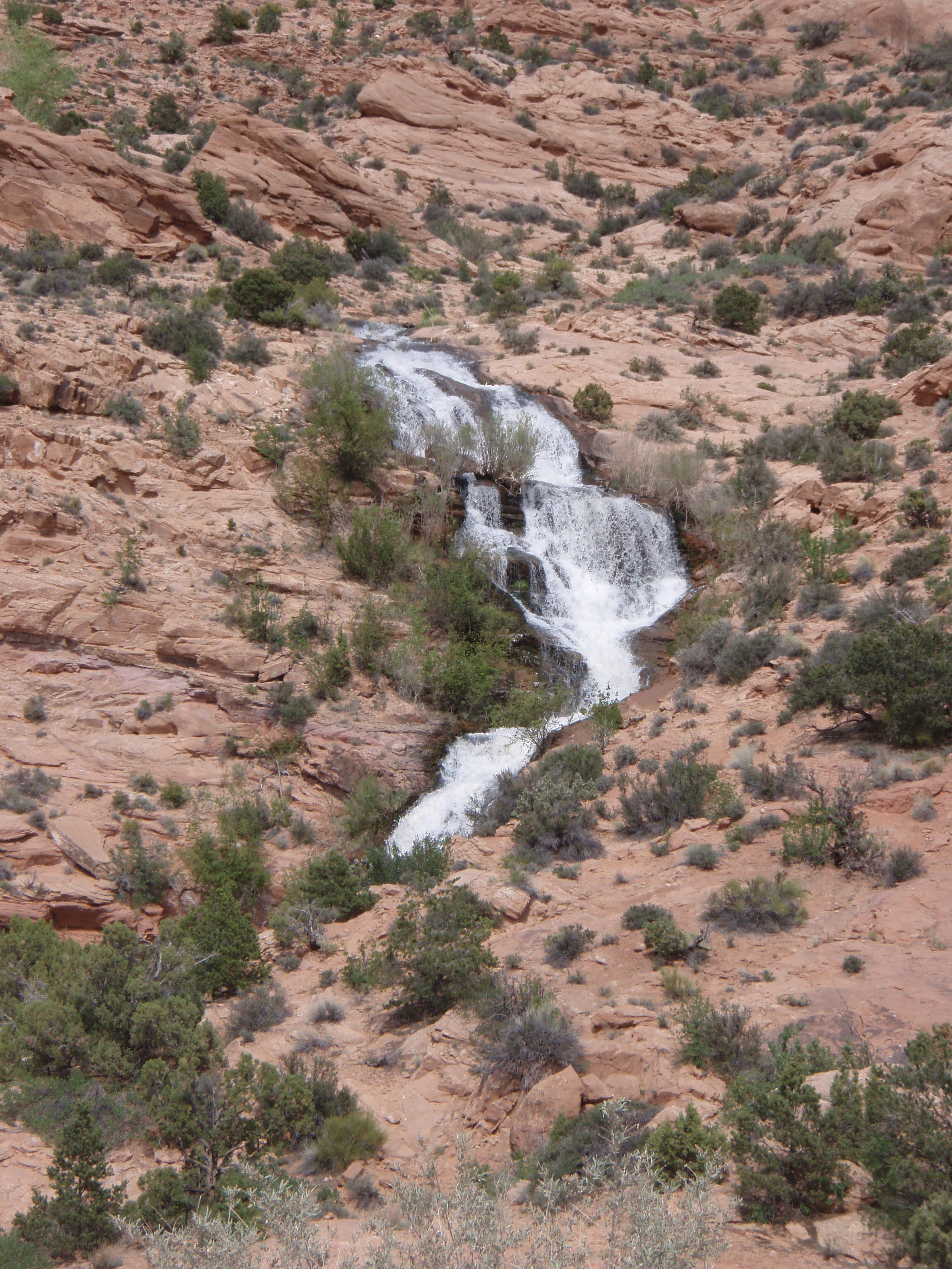 waterfall in